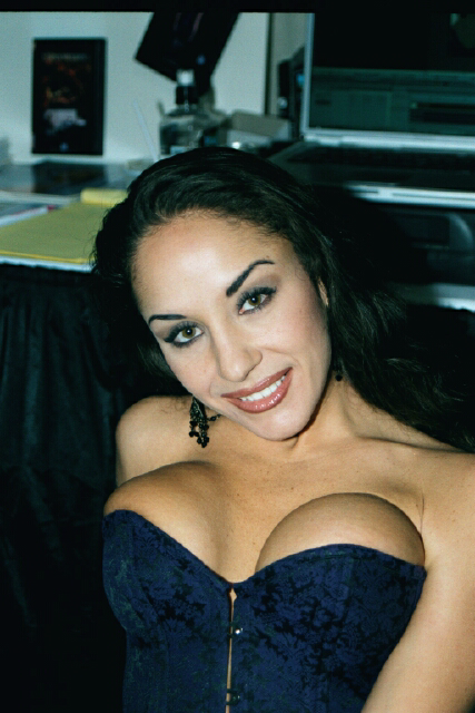 Jewell Marceau